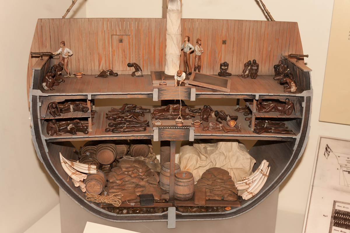 Slave ship model displayed at the National Museum of American History (Smithsonian Institution). “ Slave Ship This model shows a typical ship in the early 1700s on the Middle Passage. To preserve their profits, captains and sailors tried to limit the deaths of slaves from disease, suicide, and recolts. In the grisly arithmetic of the slave trade, captains usually chose between two options: pack in as many slaves as possible and hope that most survive, or put fewer aboard, improve the conditions between decks, and hope to lose fewer to disease. ”